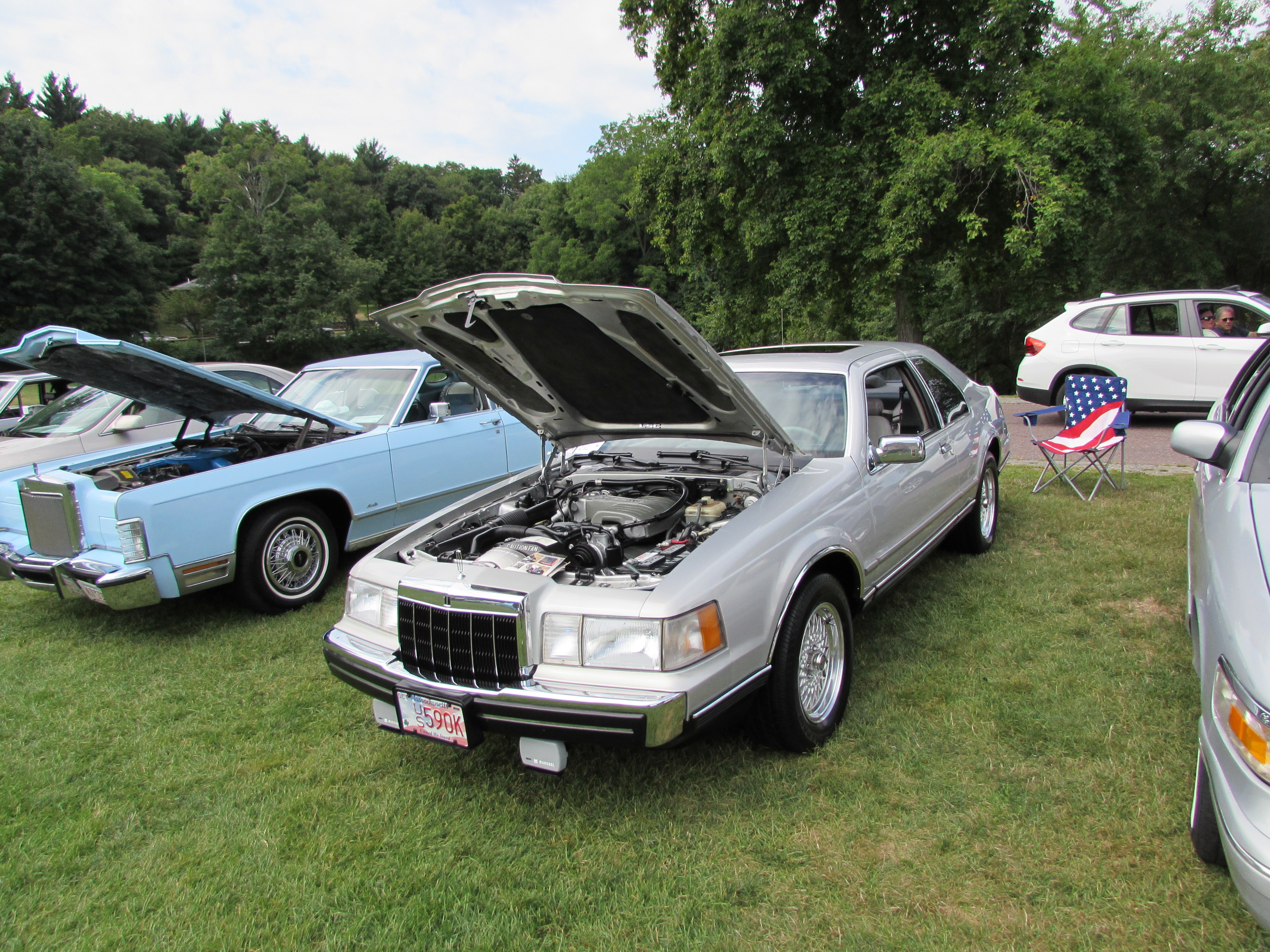 1990 Lincoln Mark VII at 2014 Ford Day at Larz Anderson Museum of Transportation in Brookline, MA.